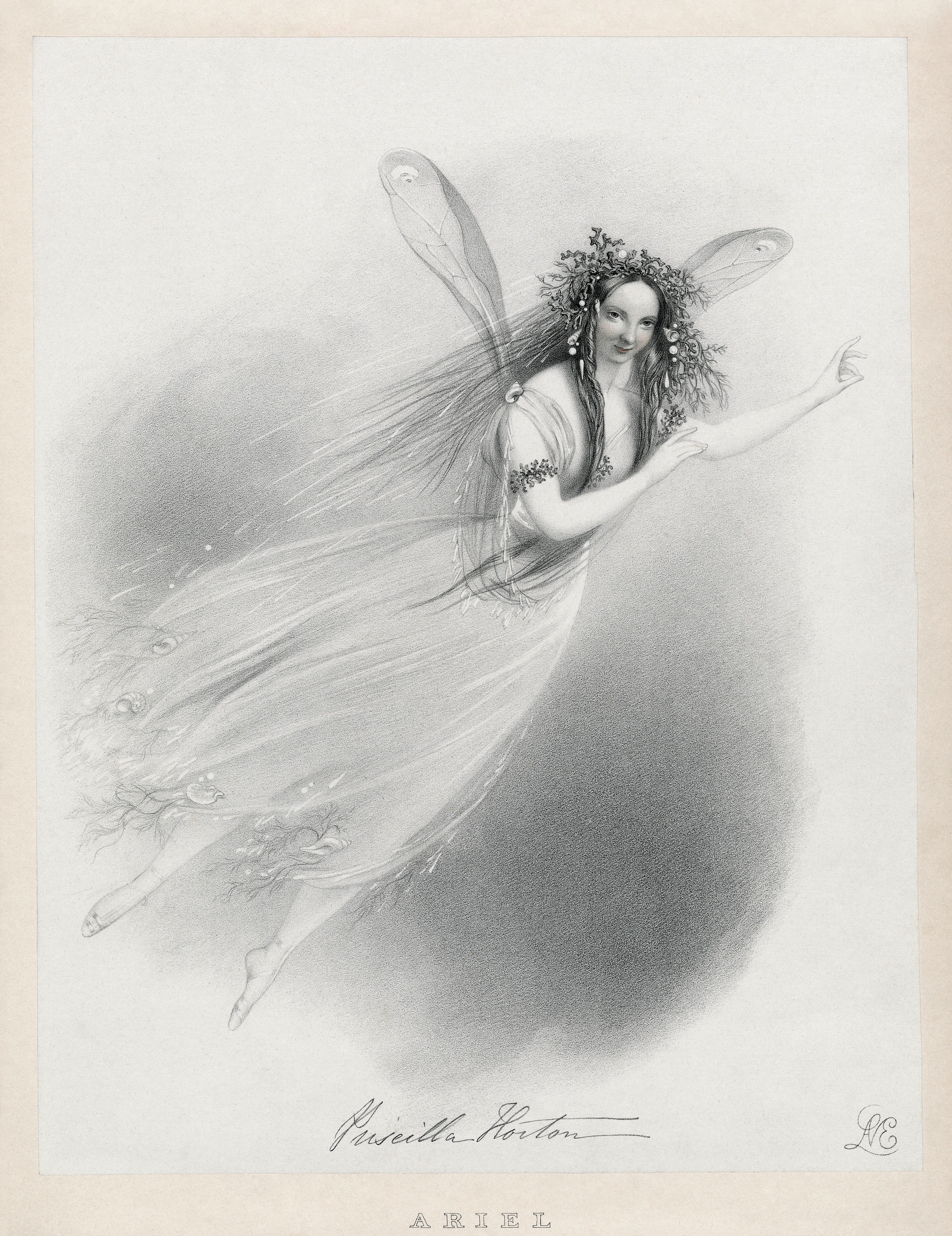 Priscilla Horton, later Mrs. German Reed, as Ariel in the final scene of Act 5 of The Tempest Original dimensions: 287 x 223 mm.